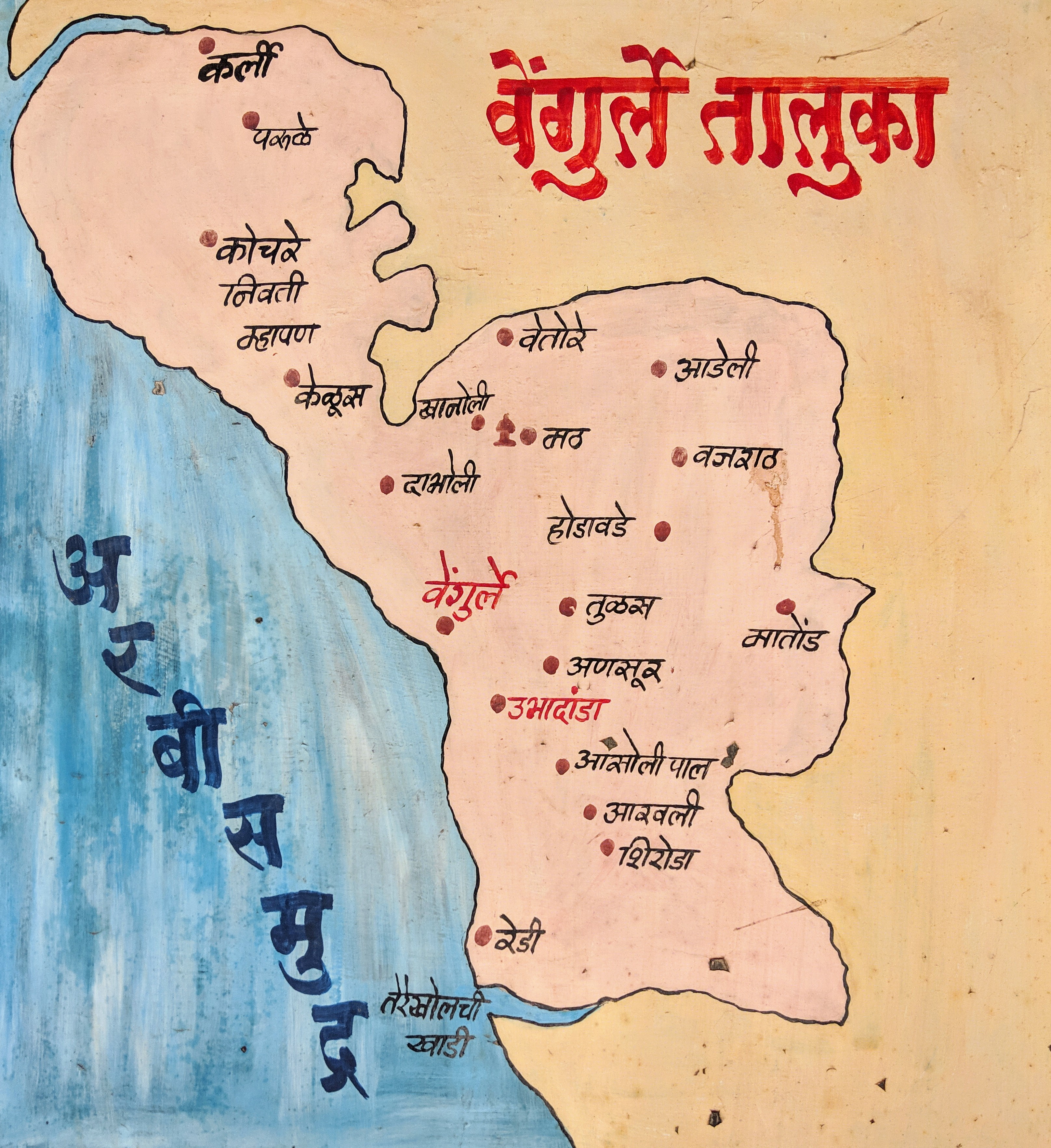 This is the Map of Vengurla Taluka, Having Major places on the map